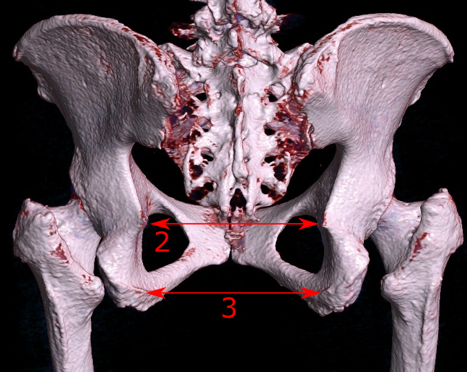 3D rendered CT scan of a female pelvis, showing the interspinous (2) and intertuberous (3) diameters, which are parameters of pelvimetry. (2016). "Pelvimetry by Three-Dimensional Computed Tomography in Non-Pregnant Multiparous Women Who Delivered Vaginally". Polish Journal of Radiology 81: 219–227. ISSN 0137-7183.